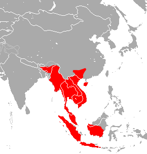 Intermediat Roundleaf Bat (Hipposideros larvatus) range